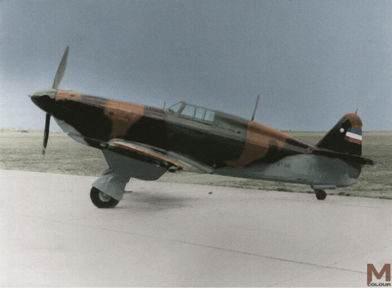 Colored IK-3